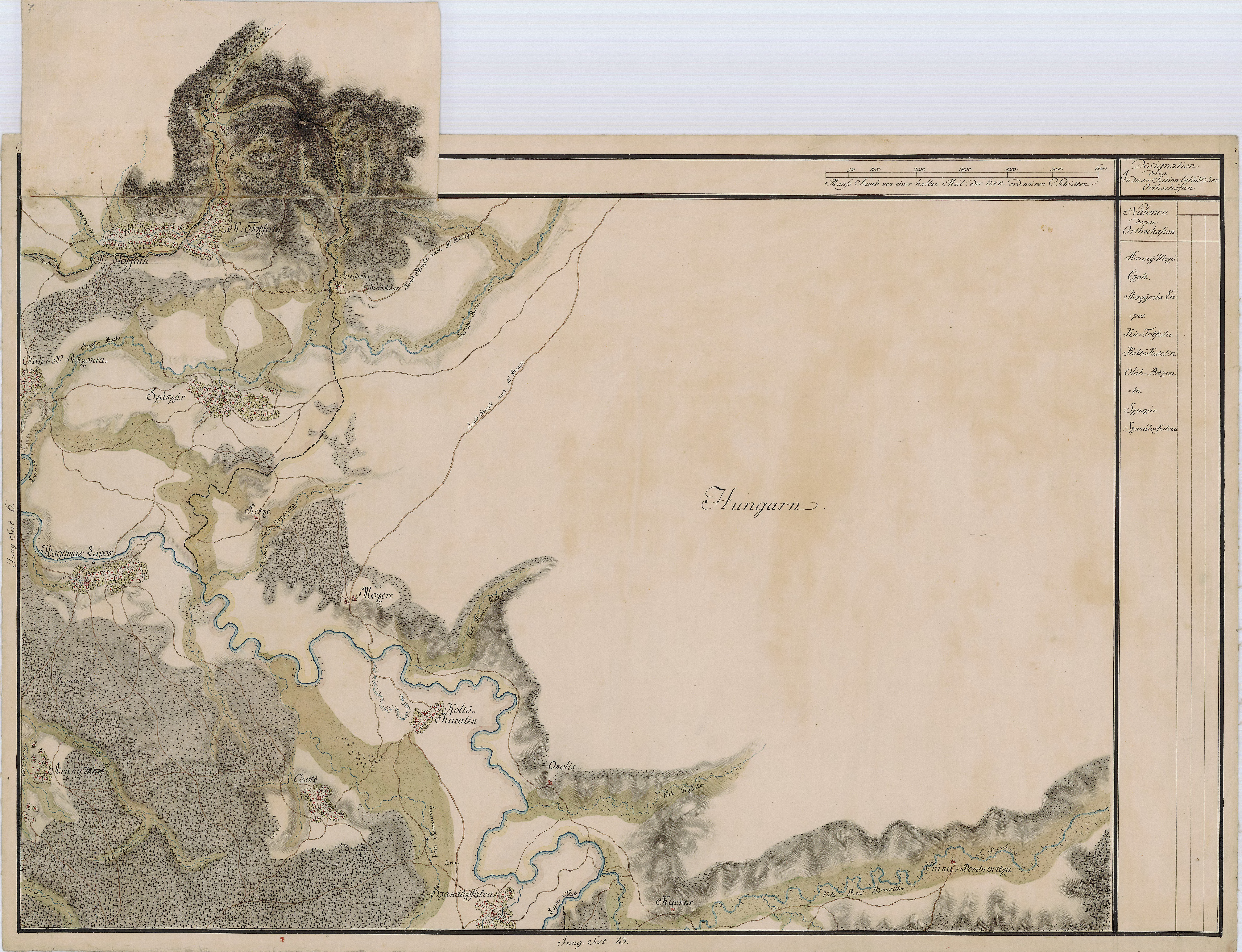 Grand Duchy of Transylvania, 1769-1773. Josephinische Landaufnahme pg.007